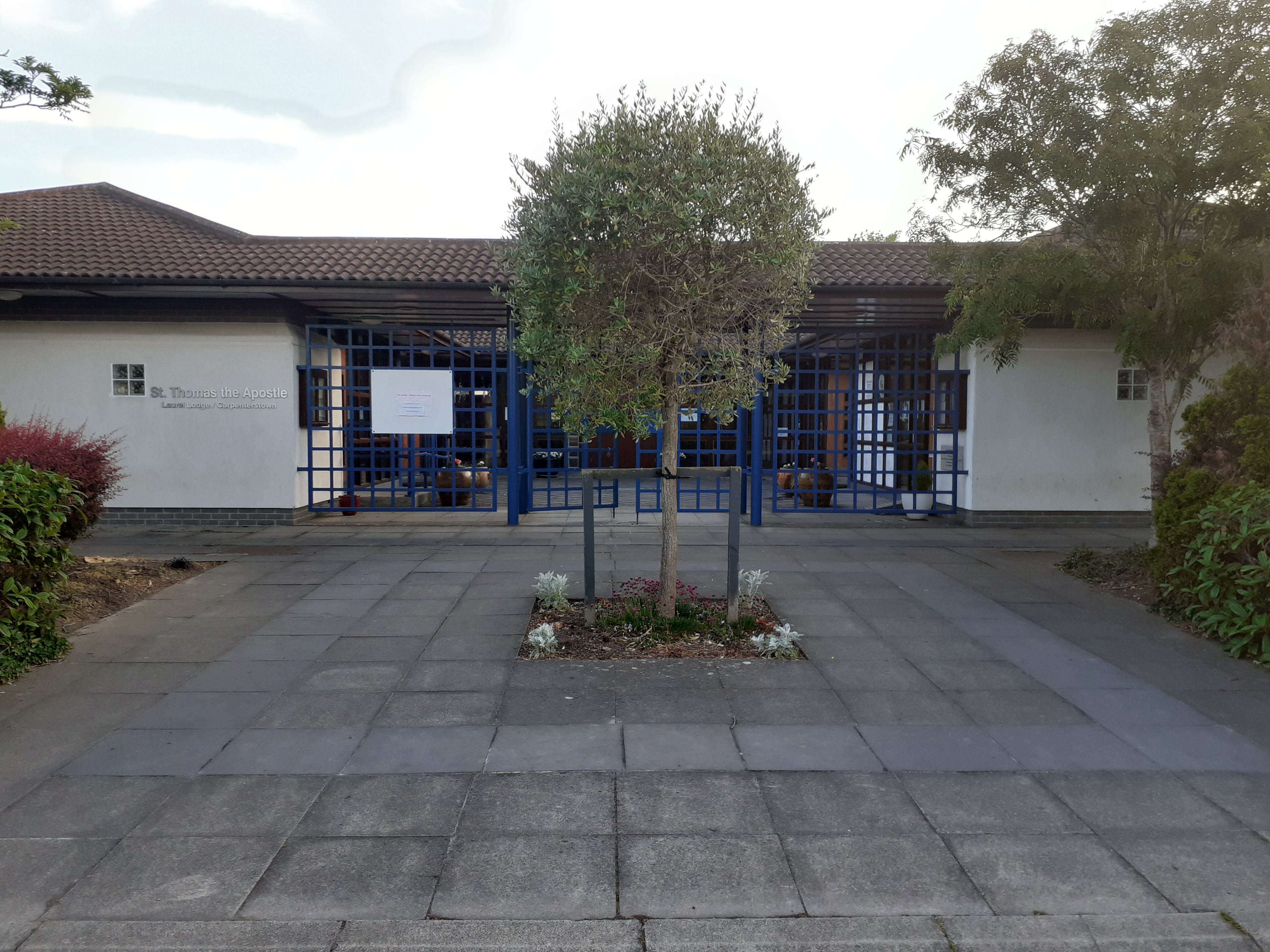 St. Thomas the Apostle Church, Laurel Lodge Castleknock (2020)